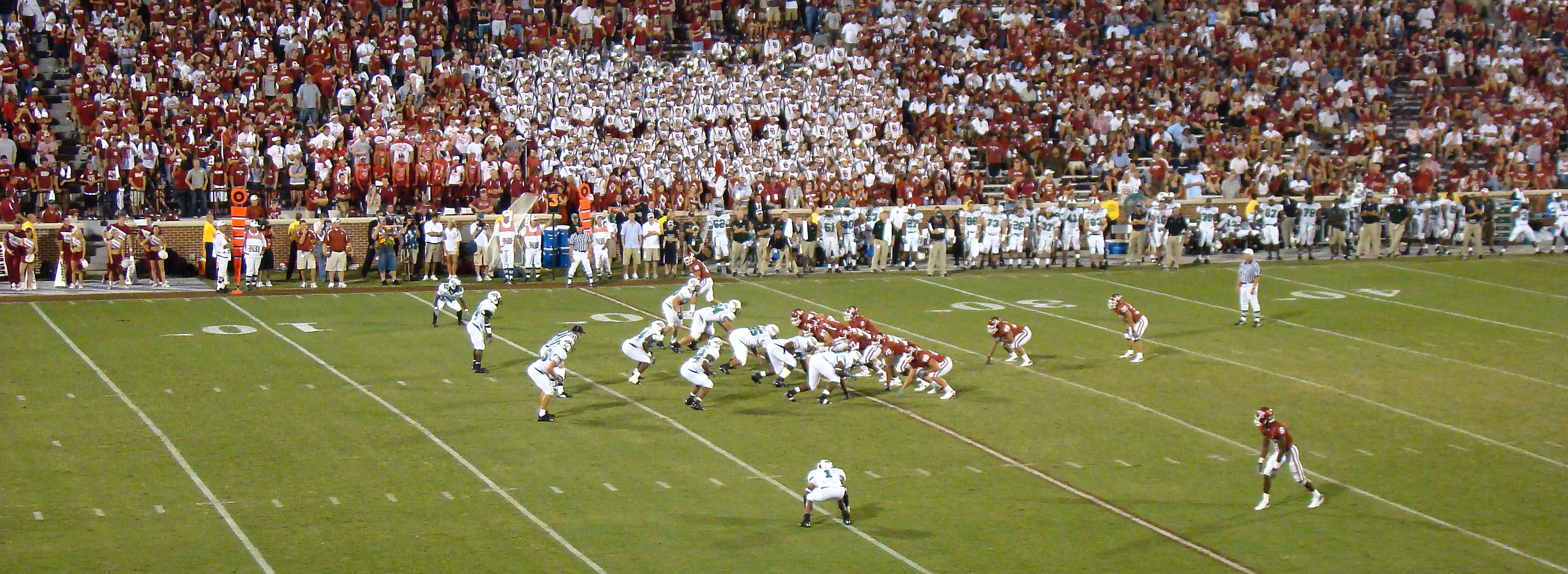 The Oklahoma Sooners football team takes on the North Texas Mean Green.